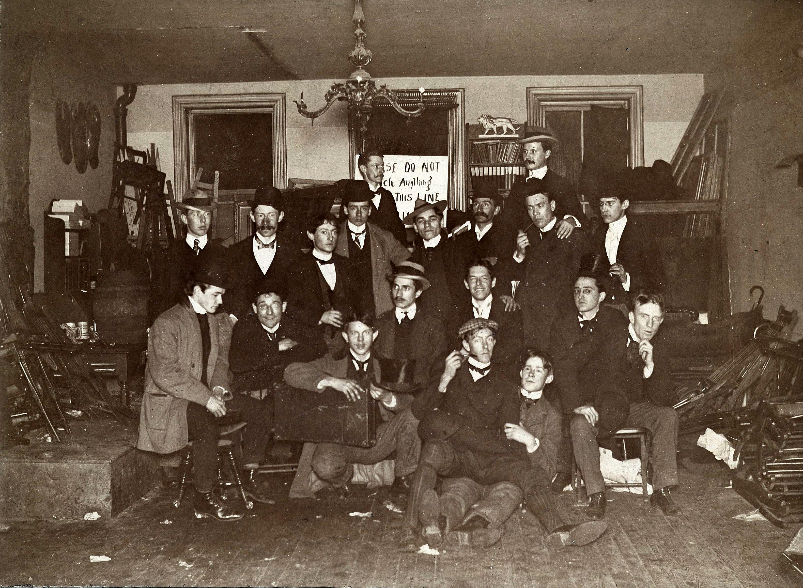 Sloan pictured among a group of his friends at his studio in Philadelphia. Photographer unknown.